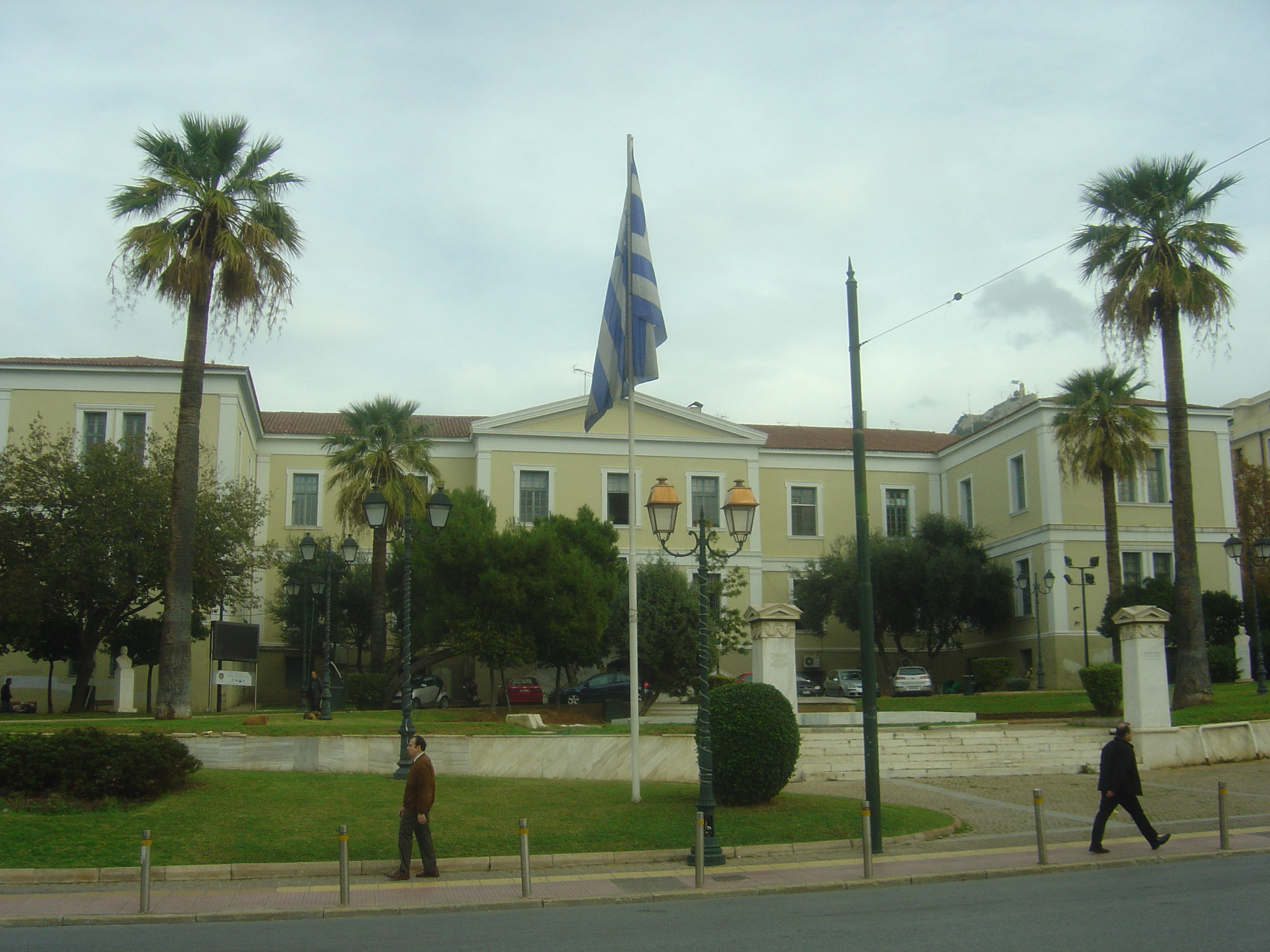 Park of the Greek Writers in Athens, Greece